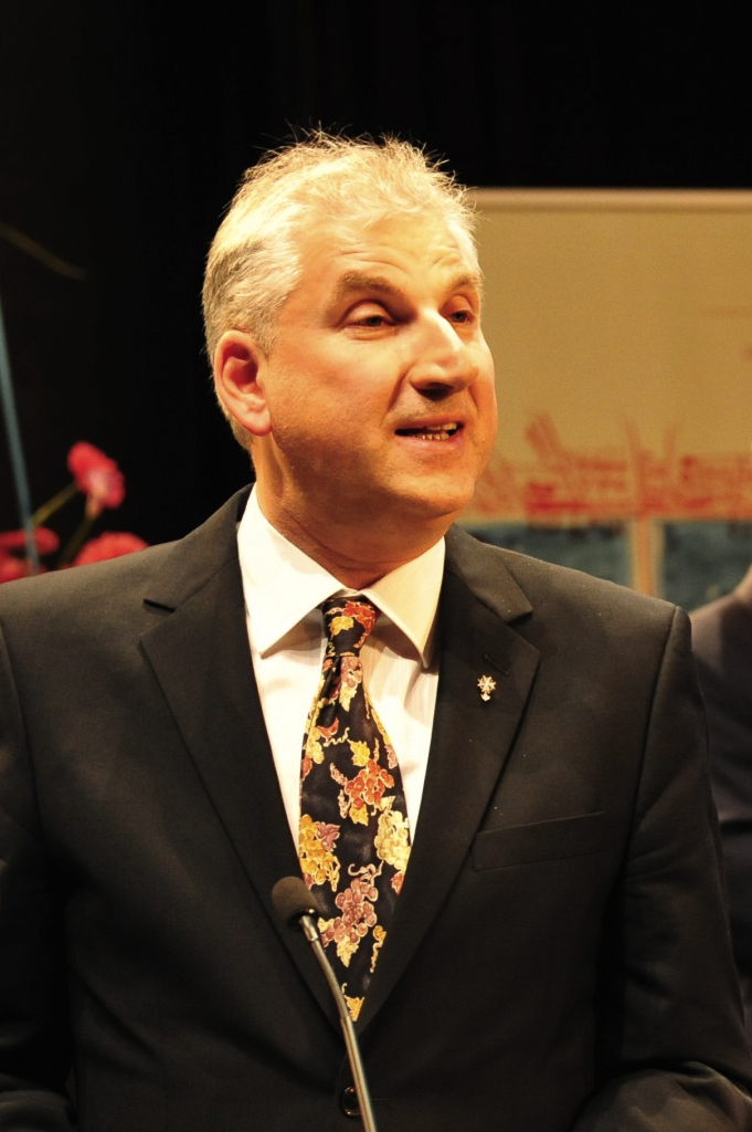 Thomas Hennefeld.